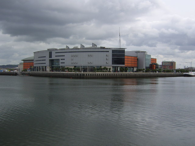 Odyssey Complex Built as Northern Ireland's landmark millennium project the Odyssey complex is a multi-function entertainment facility, including concert arena, W5 interactive discovery centre, cinema and is home to the Belfast Giants ice hockey team.